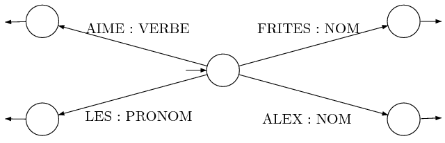 This transucer represents an example of dictionnary : it reads a word and writes it's grammatical function.